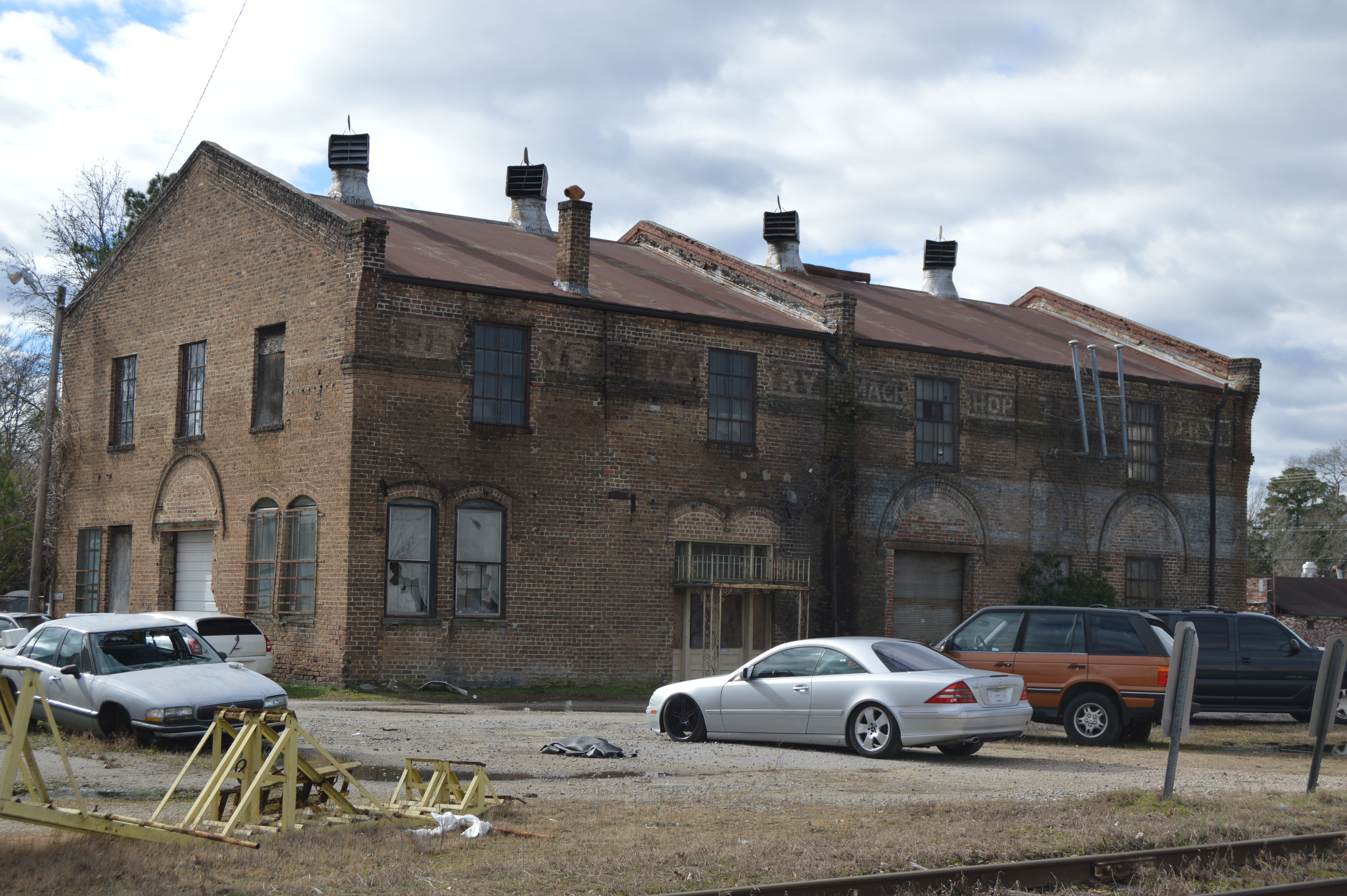 Front and eastern end of the Rocky Mount Electric Power Plant, located at 217 Andrews Street in Rocky Mount, North Carolina, United States. Built in 1901 and expanded in 1920, it is listed on the National Register of Historic Places.